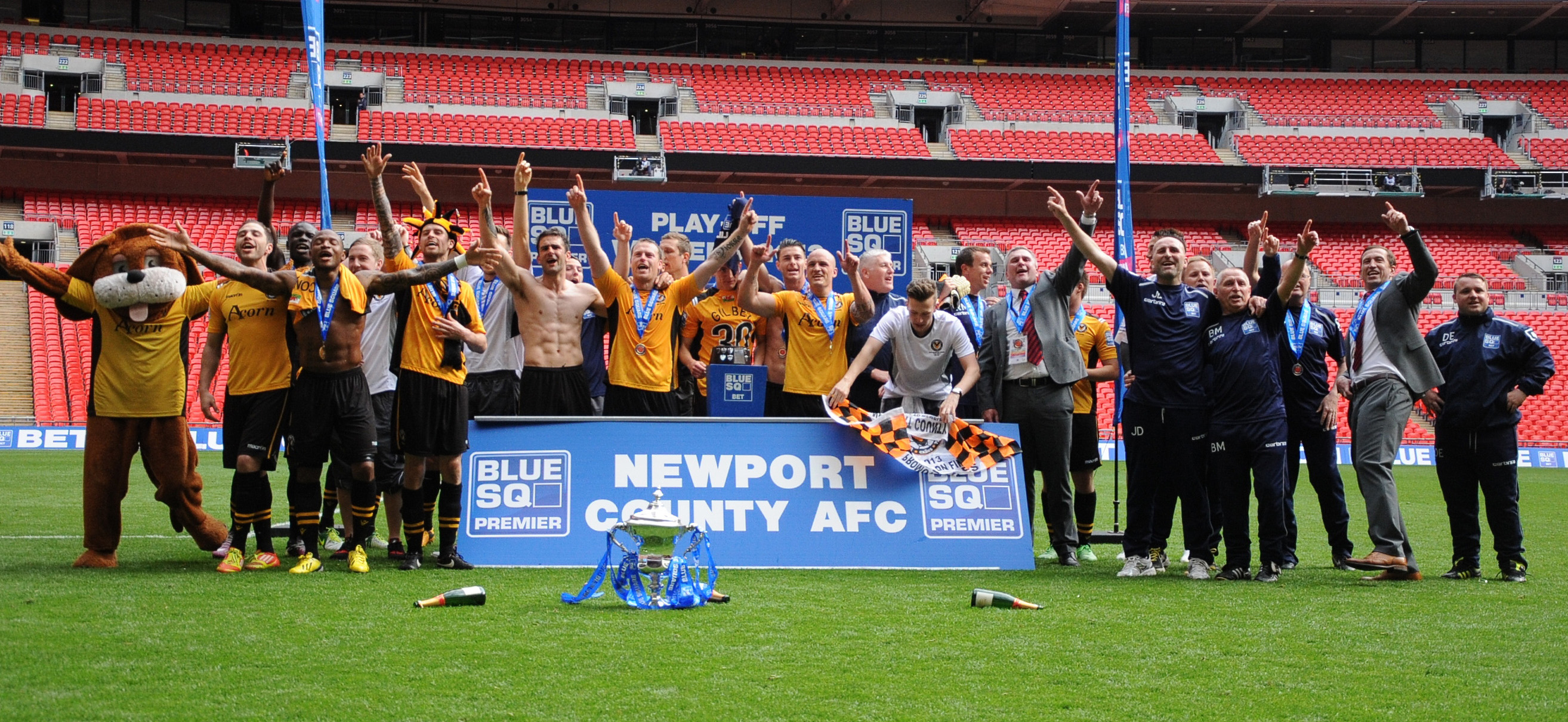 Newport County lift the Conference National play-off winners' trophy on 5 May 2013